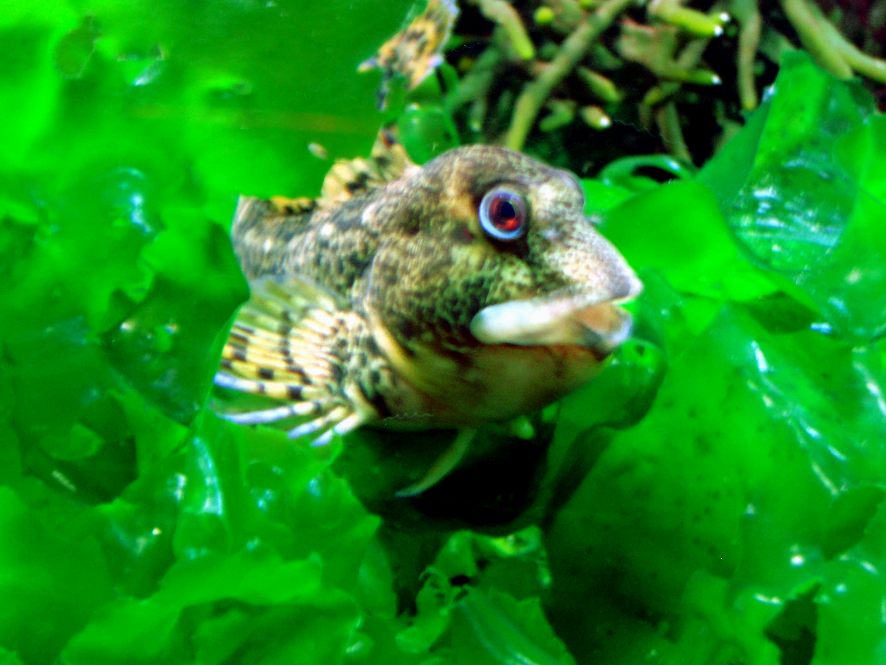 Shanny (Lipophrys pholis) (Linnaeus, 1758)